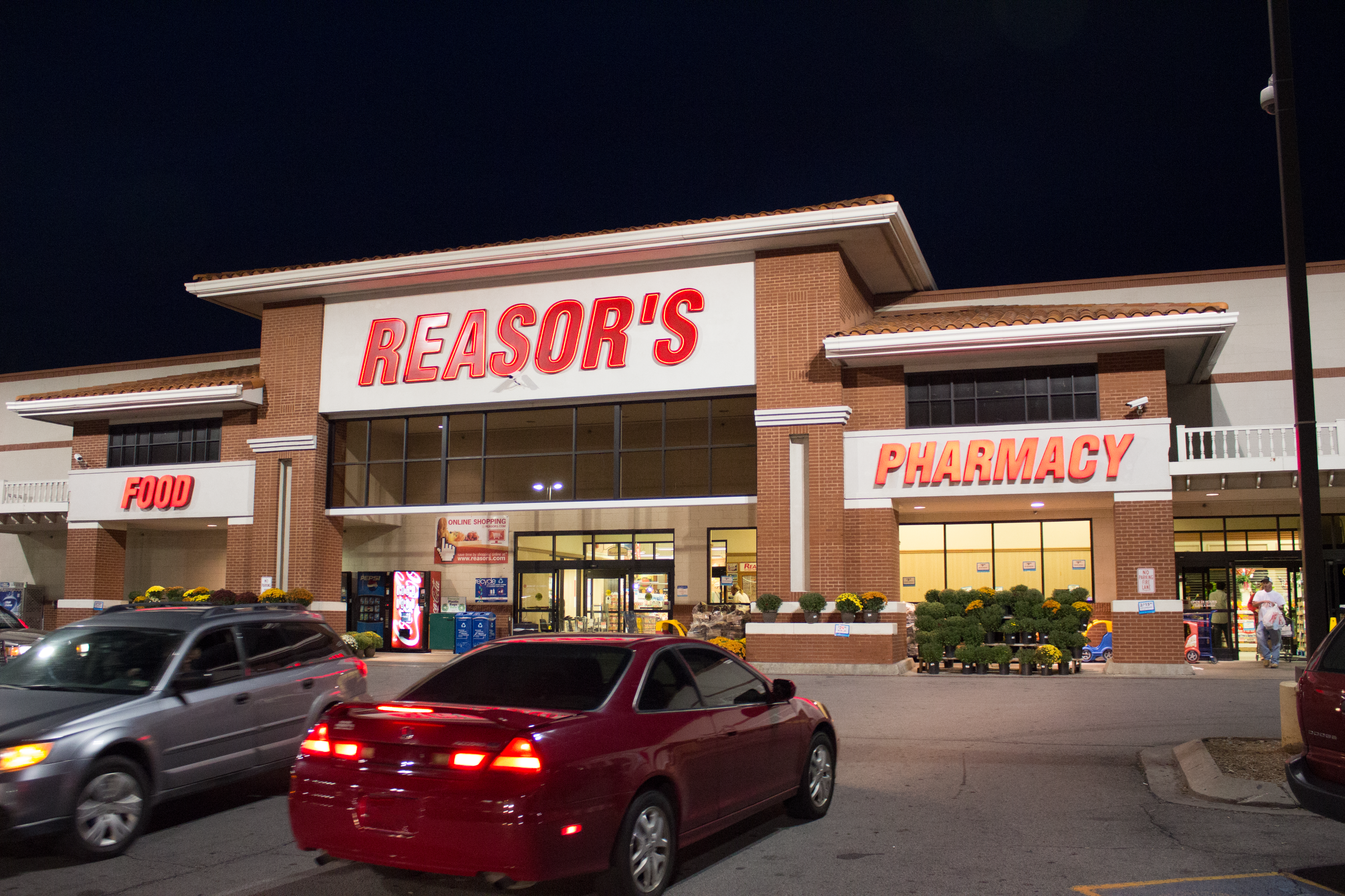 The Reasor's grocery store at 2429 E 15th St, Tulsa, OK at night.